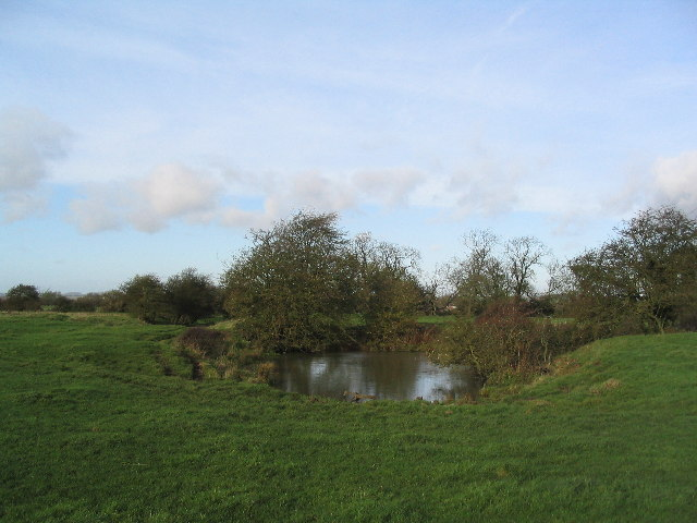 Pond at site of St Lazarus Hospital. One of several ponds, possibly former fish ponds. The constant level of water in these ponds suggests they may be fed by a spring, which would be surprising as this is the highest point in the immediate area.